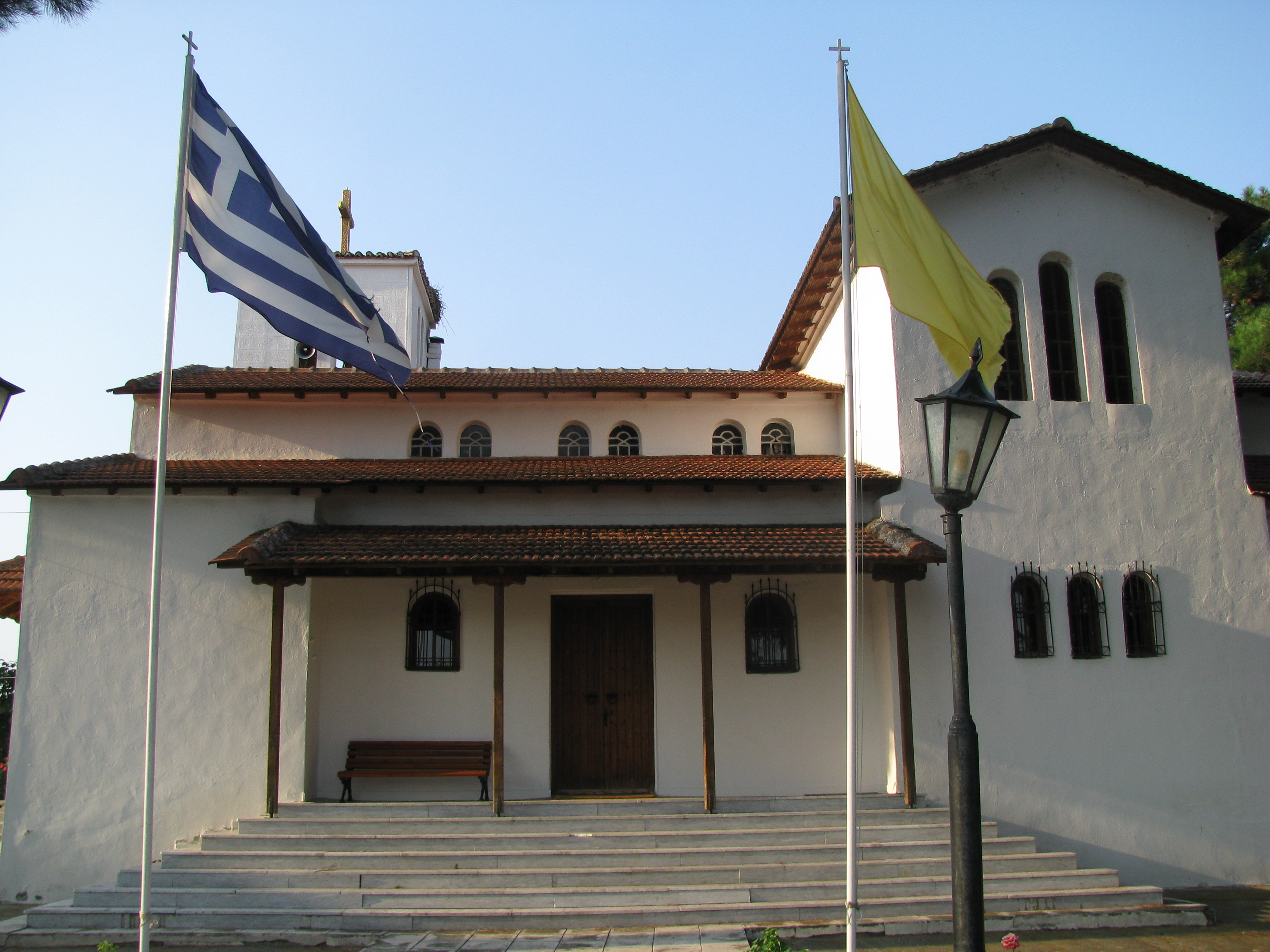 Church "St.Dimitrios" of Polipetro/Kushinovo, Aegean Macedonia, Greece